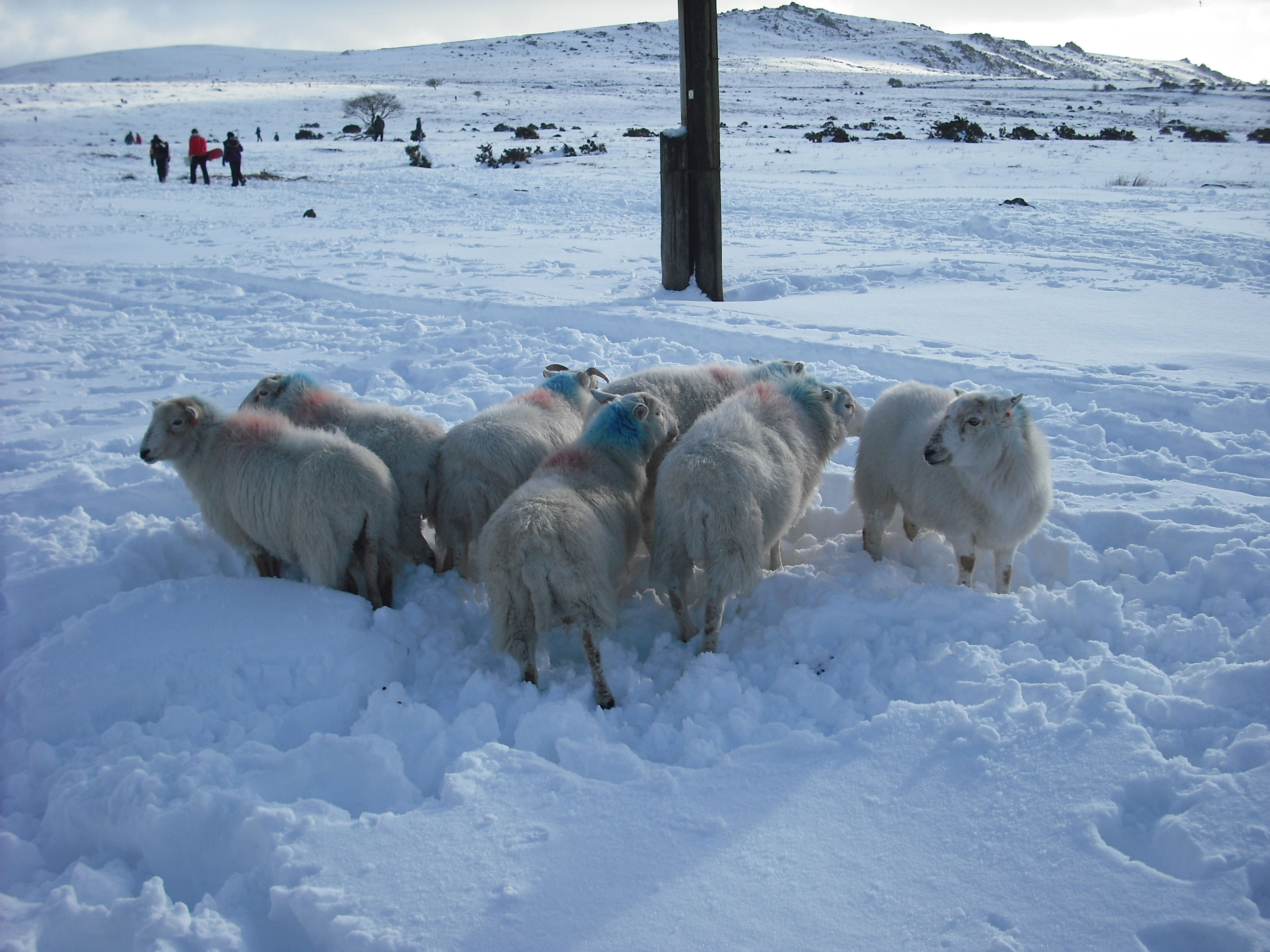 A picture taken on Dartmoor near Sourton, about 4 miles (6 km) south-west of Okehampton showing a group of sheep huddling together for warmth. It shows the heavy snowfall that covered much of Devon on 6 February 2009. Sourton Tor is shown in the background to the right and Shelstone Tor to the left. Sheep farmers on Dartmoor can let their sheep roam around freely without enclosed fields. The farmers therefore mark their sheep with paint such as the blue and red paint seen on the sheeps' necks, so they know which sheep belong to which farmer.